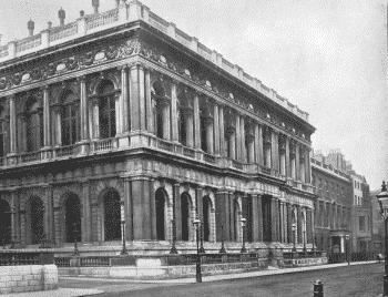 Carlton Club, Pall Mall, before wartime destruction. (Courtesy of ).